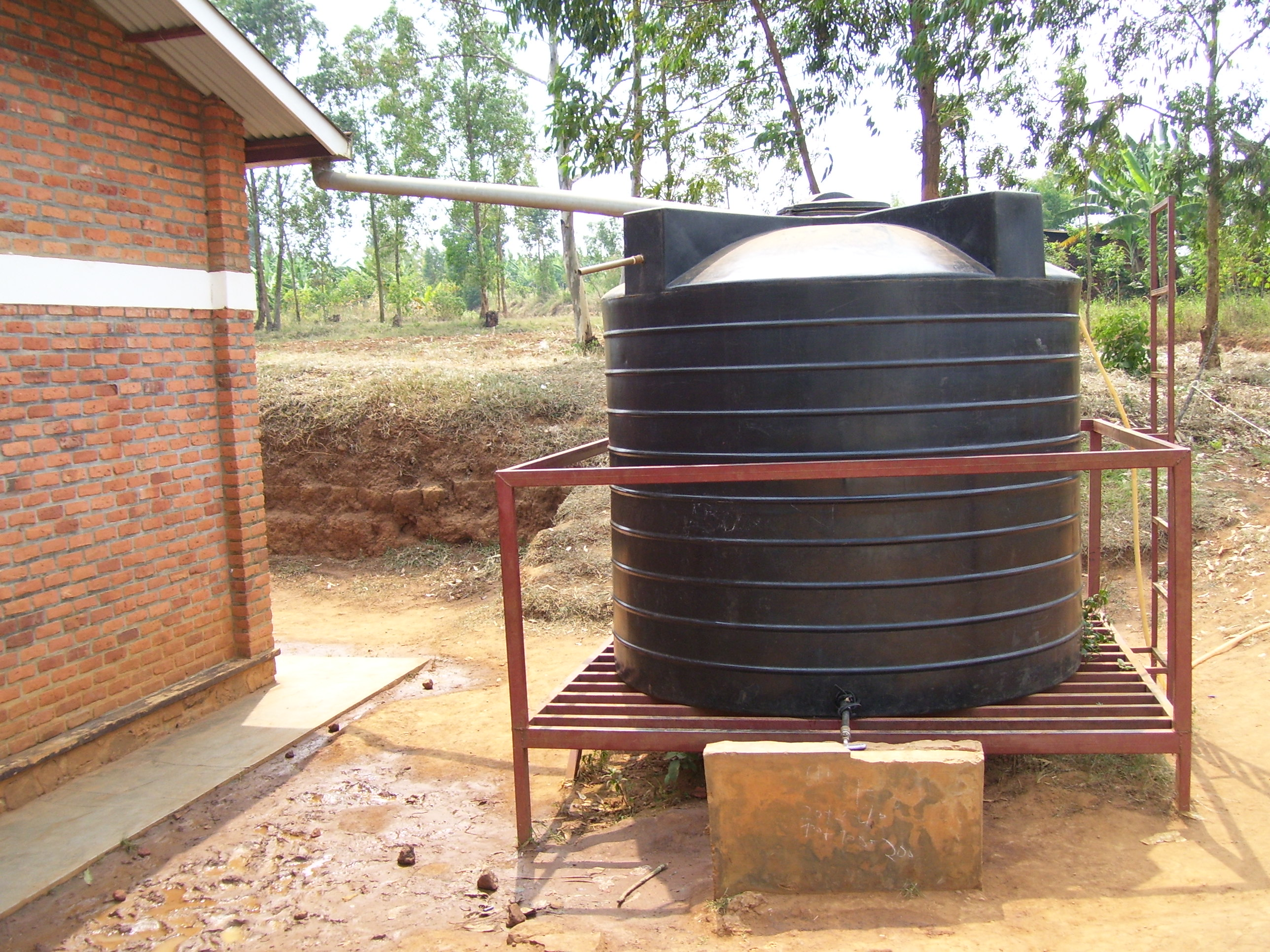 The tank is also connected to a piped water supply. Picture by C.Rieck (2011)